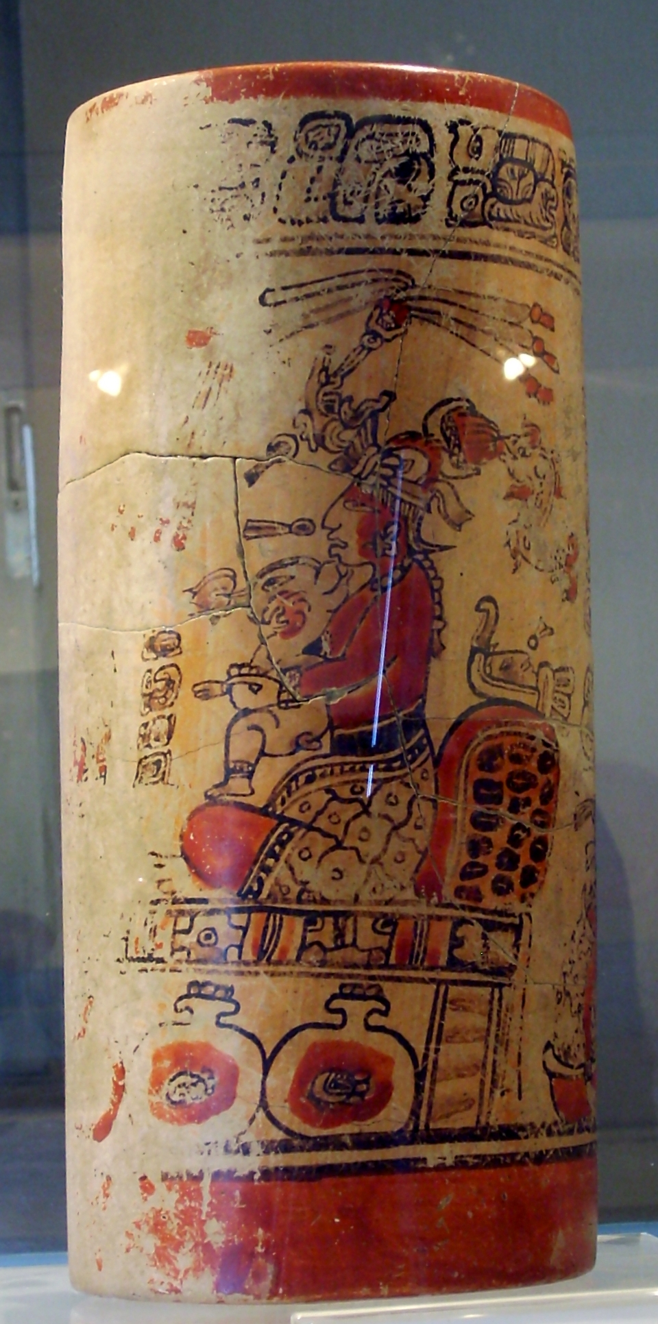 Late Classic Maya vase from Sacul, Peten and now in the Museo Regional del Sureste de Petén in Dolores, Peten, Guatemala. The vase was a drinking vessel for chocolate. It depicts a mythological scene featuring the young Moon goddess. The vase includes a hieroglyphic text that identifies it as the drinking vessel of a lord of Naranjo.